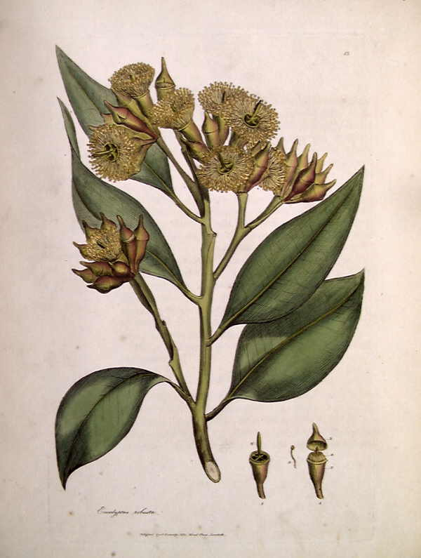 This is an image of a print of a hand coloured engraving by James Sowerby (1757-1822), based on drawing nominally by John White but probably by the convict artist Thomas Watling. It appeared as Tab. XIII in James Edward Smith's 1793 A Specimen of the Botany of New Holland. The plant depicted is Eucalyptus robusta. The accompanying text explains the figure thus: 1. 1. A young flower. 2. Calyx. 3. Lid. 4. Stamina not full grown. 5. A complete stamen. 6. Style.